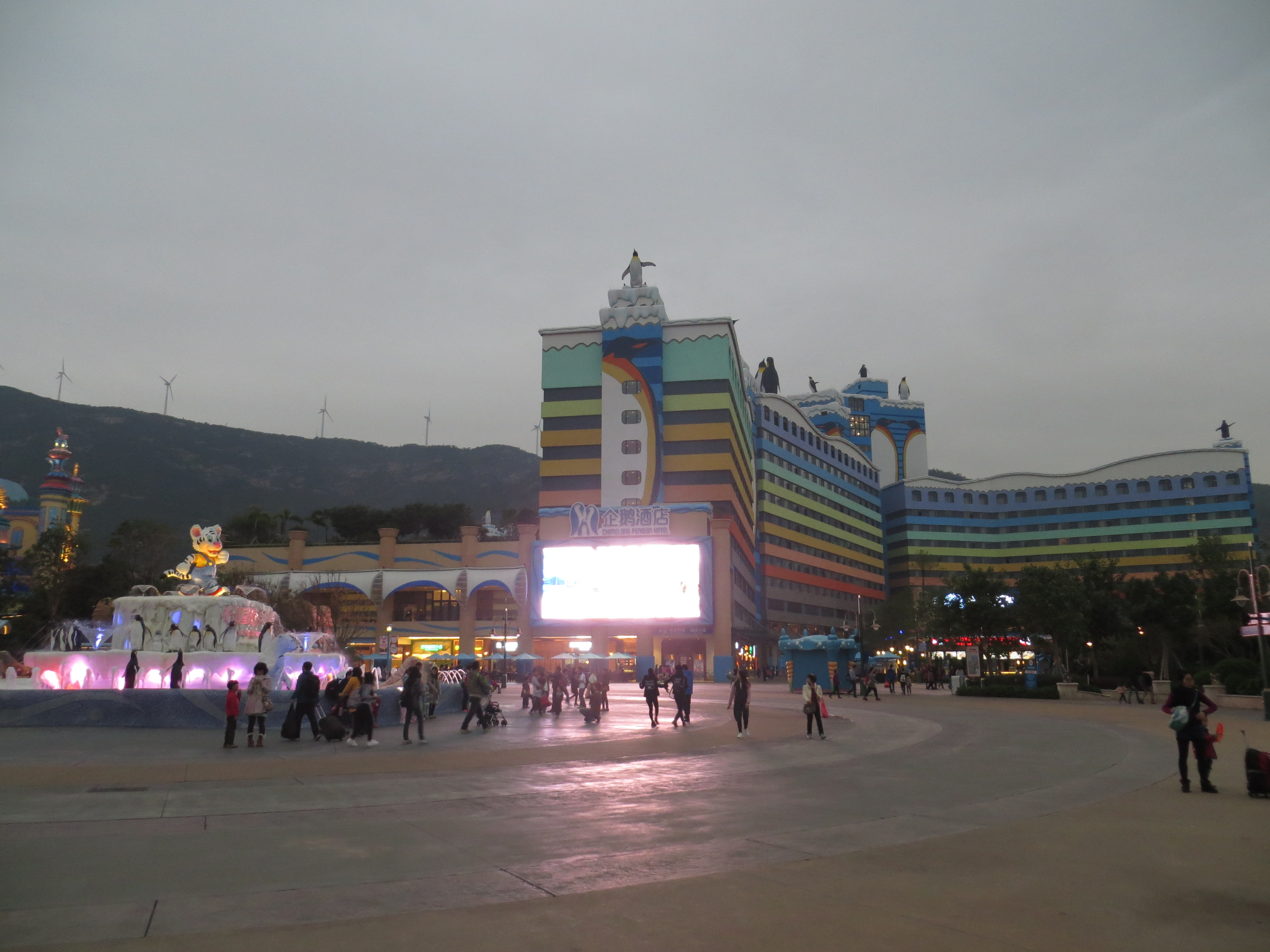 Chimelong Penguin Hotel 中文（香港）: 長隆企鵝酒店